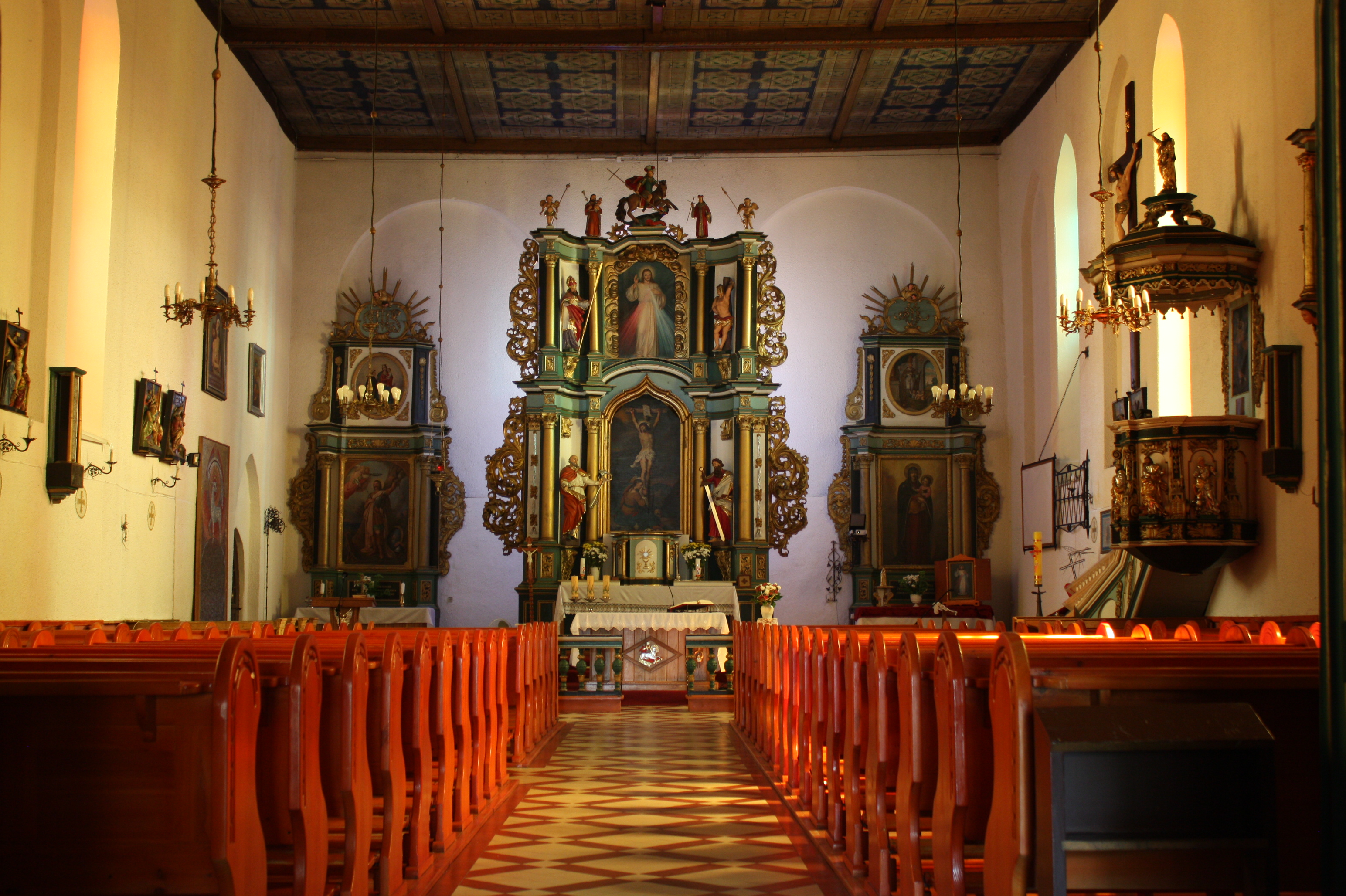 This photo of Warmian-Masurian Voivodeship was taken during Wikiexpedition 2012 set up by Wikimedia Polska Association. You can see all photographs in category Wikiekspedycja 2012. The making of this document was supported by Wikimedia Polska.